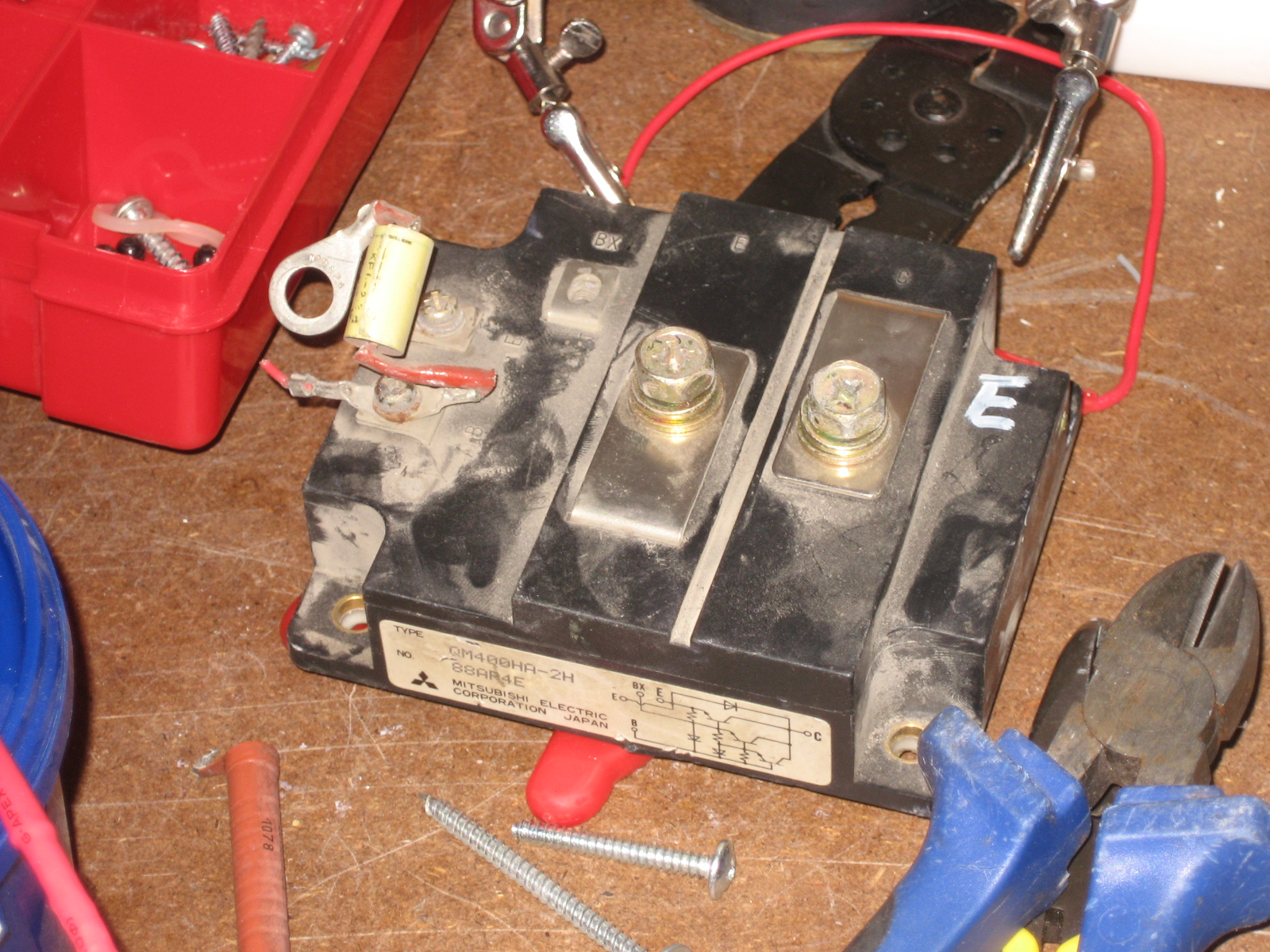 400A 600V transistor